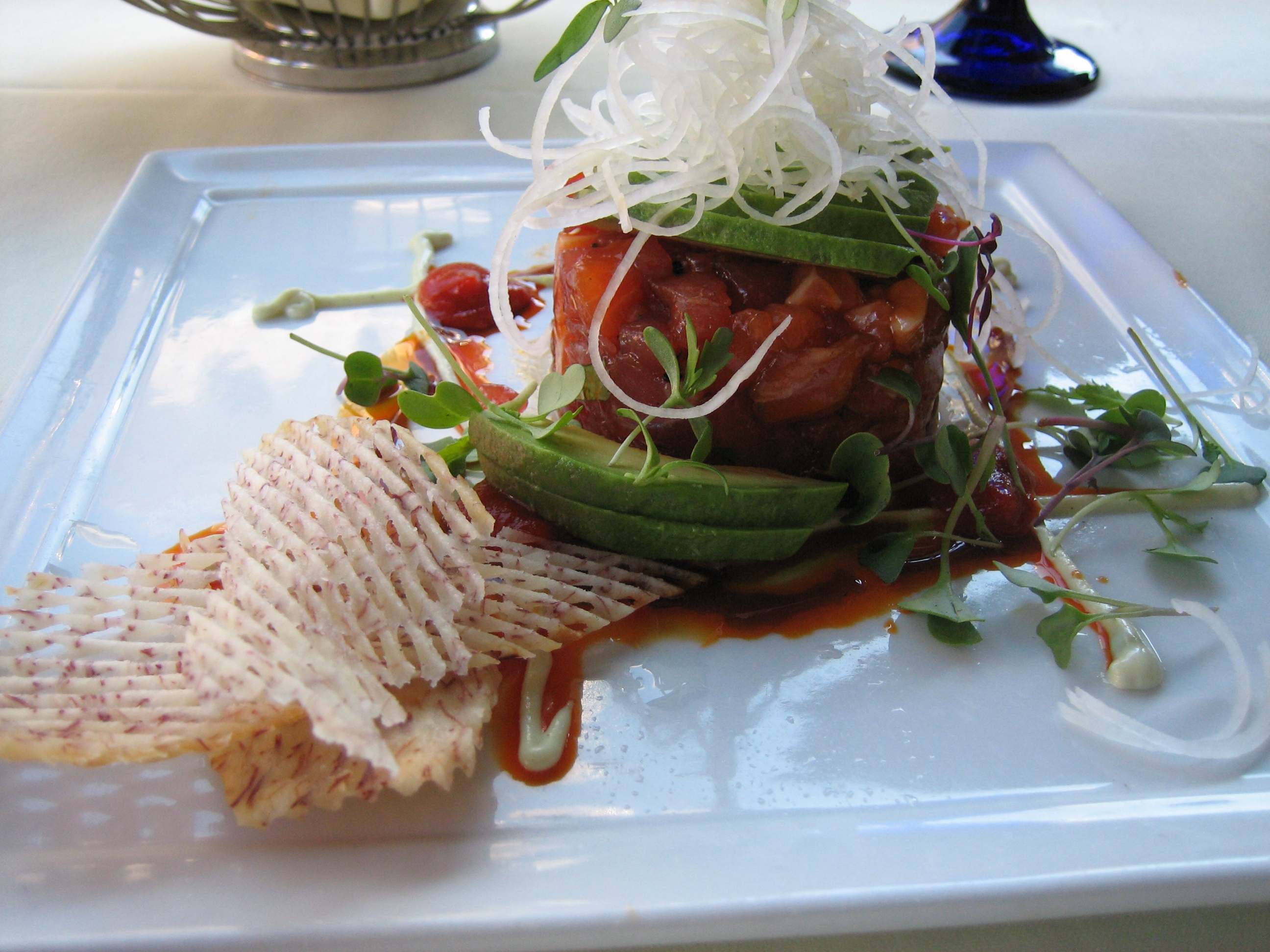 Ahi Tuna and Salmon Tartare